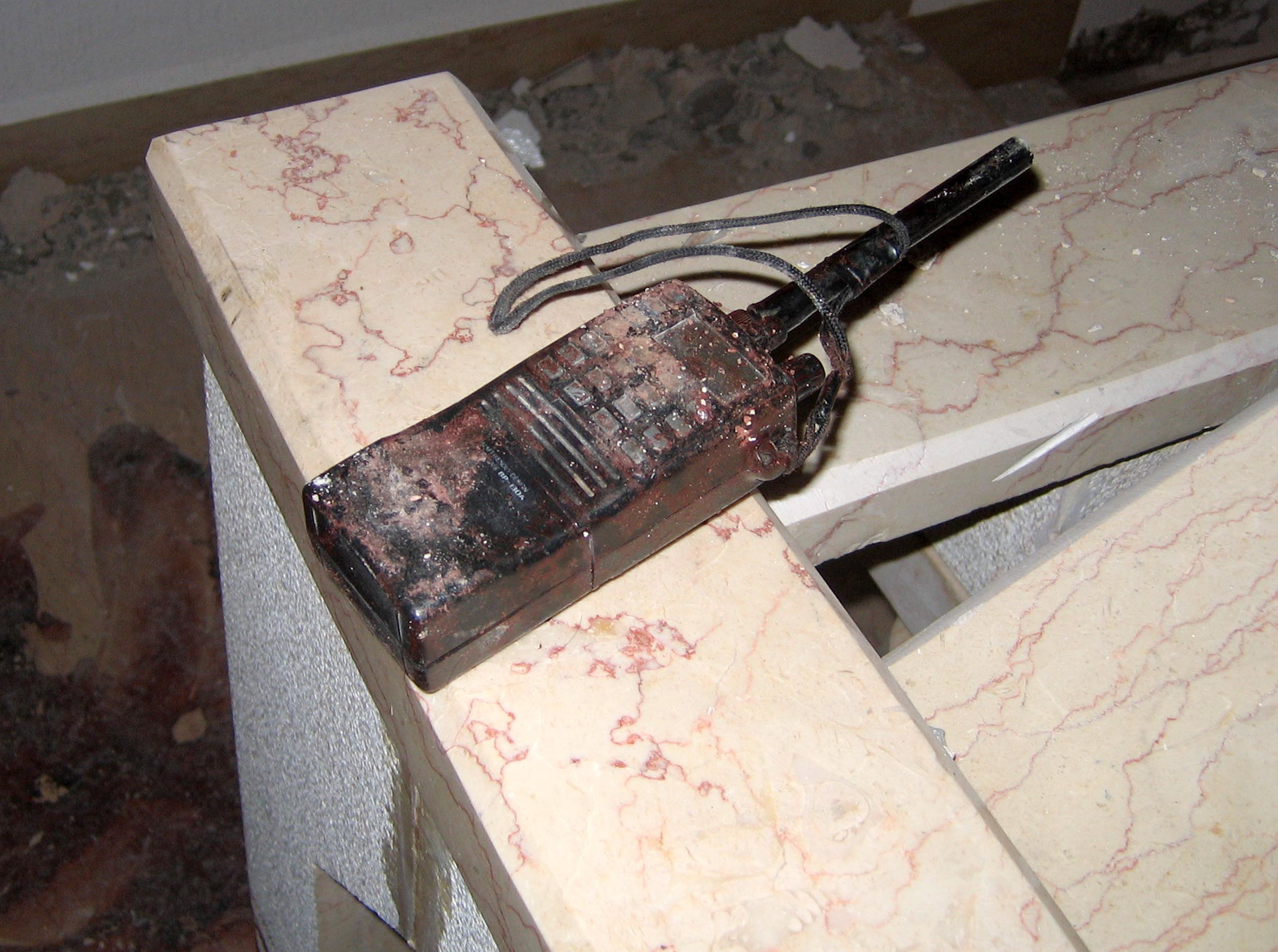 August 8, 2006 Hezbollah's equipment captured by the IDF forces in Lebanon.